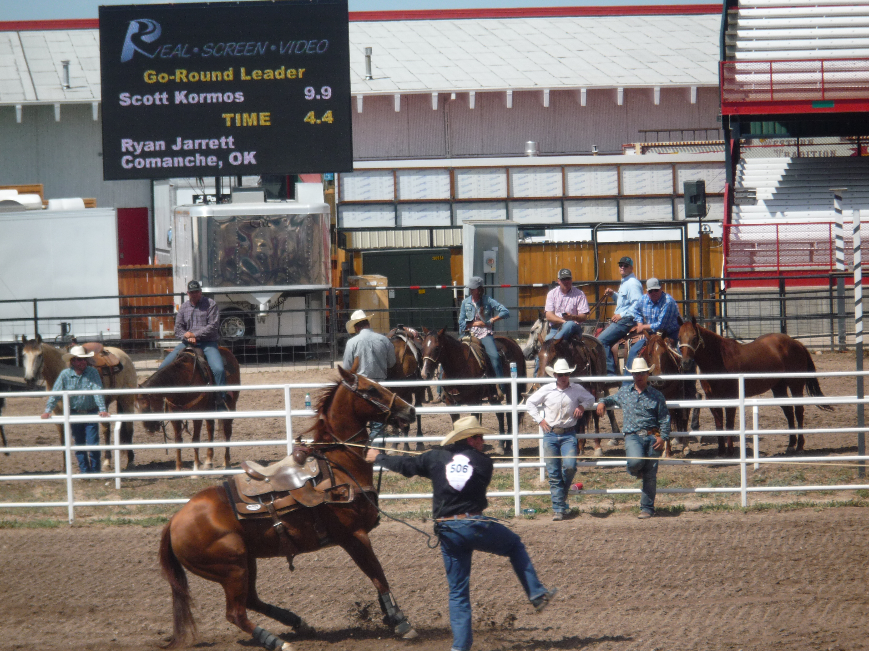 Cheyenne Frontier Days Tie-down roping rodeo slack taken in 2017.